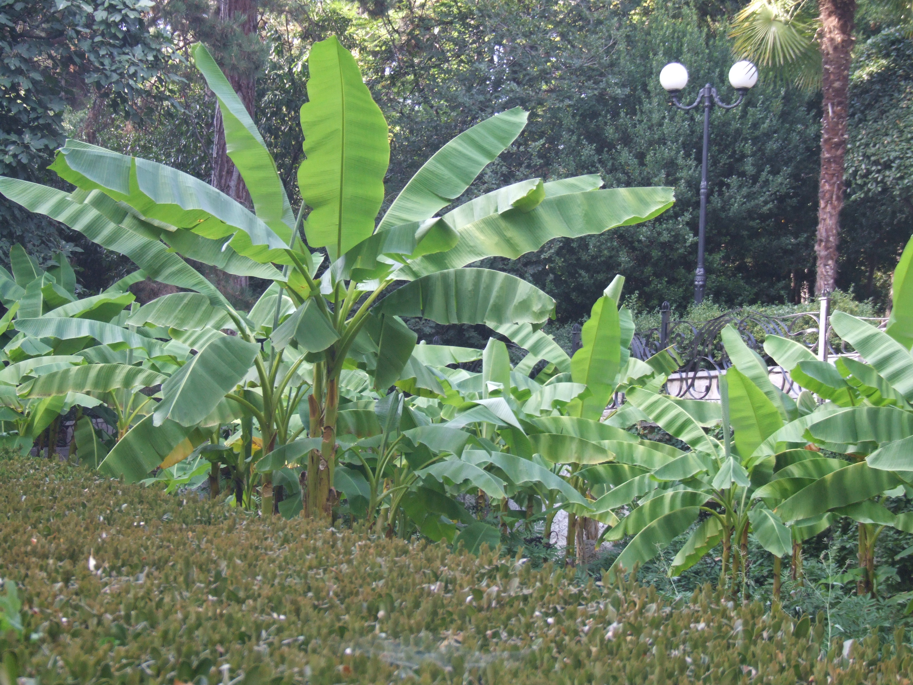 Gurzuf park